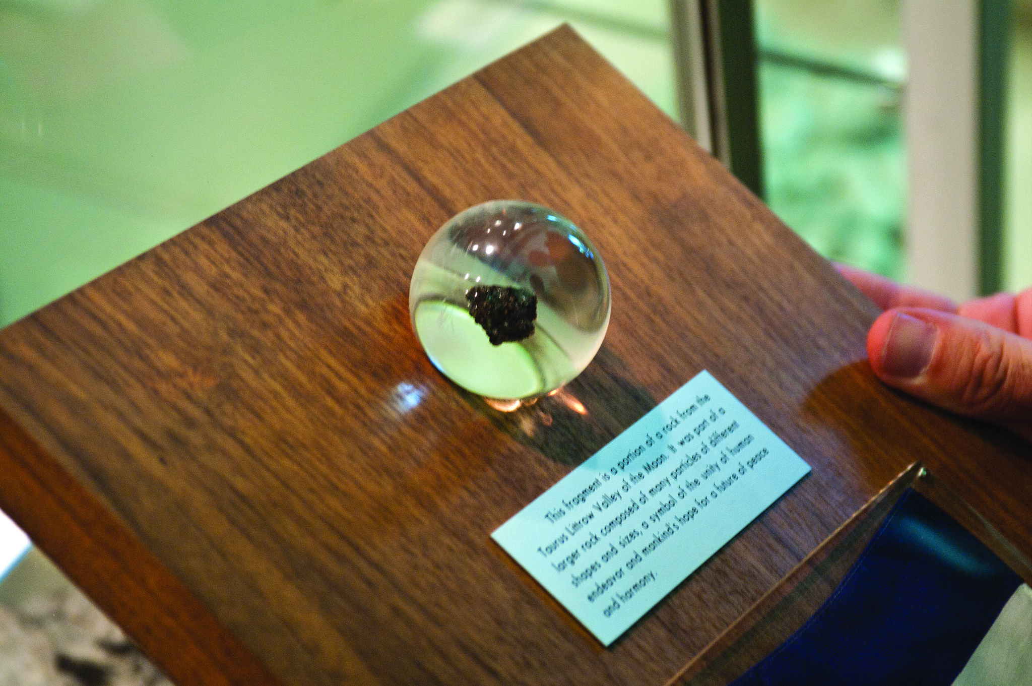 The Colorado School of Mines Geology Museum is home to a rare moon rock, long thought to be missing. Its value estimated at more than $5 million, the specimen was one of 360 rocks to come back to Earth in 1974 aboard Apollo 17, the sixth and final lunar landing mission of the Apollo program.